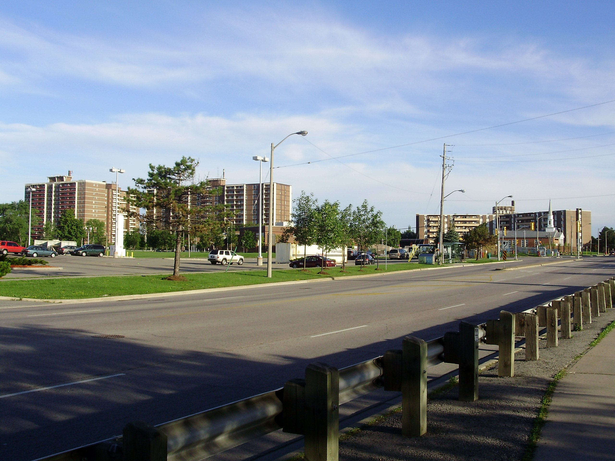 Apartment buildings rise in the neighbourhood of Mount Olive-Silverstone-Jamestown in Toronto, Ontario, Canada, photographed from Kipling Avenue just south of Finch Avenue West.